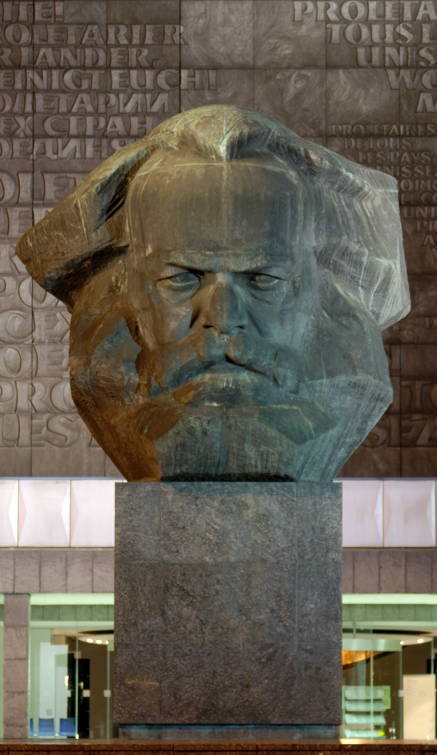 This image shows a night shot of the Karl Marx monument in Chemnitz.